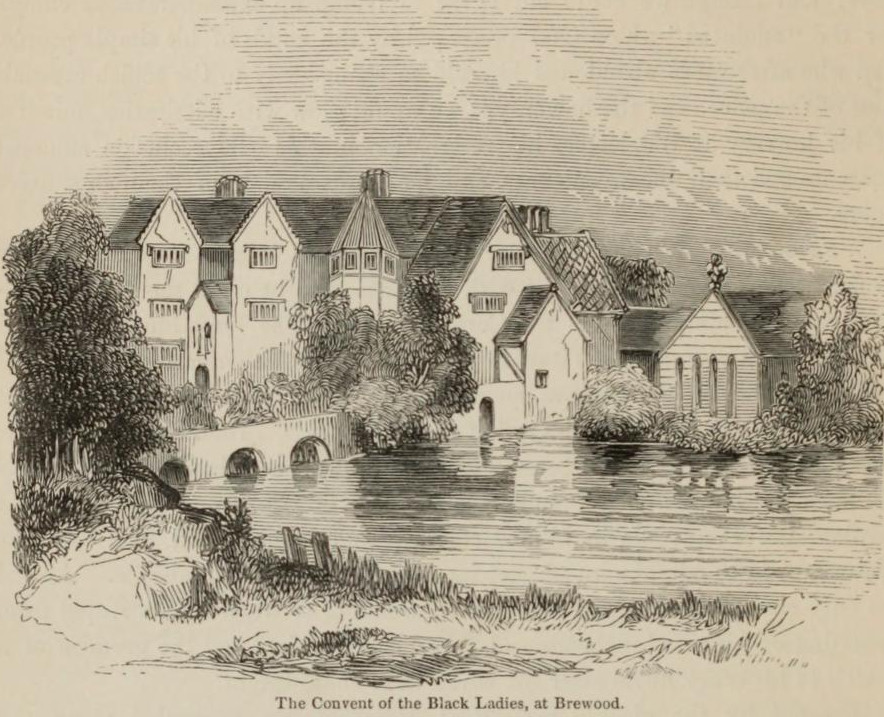 Drawing of Black Ladies, site of a Benedictine convent, near Brewood, Staffordshire. 1846.